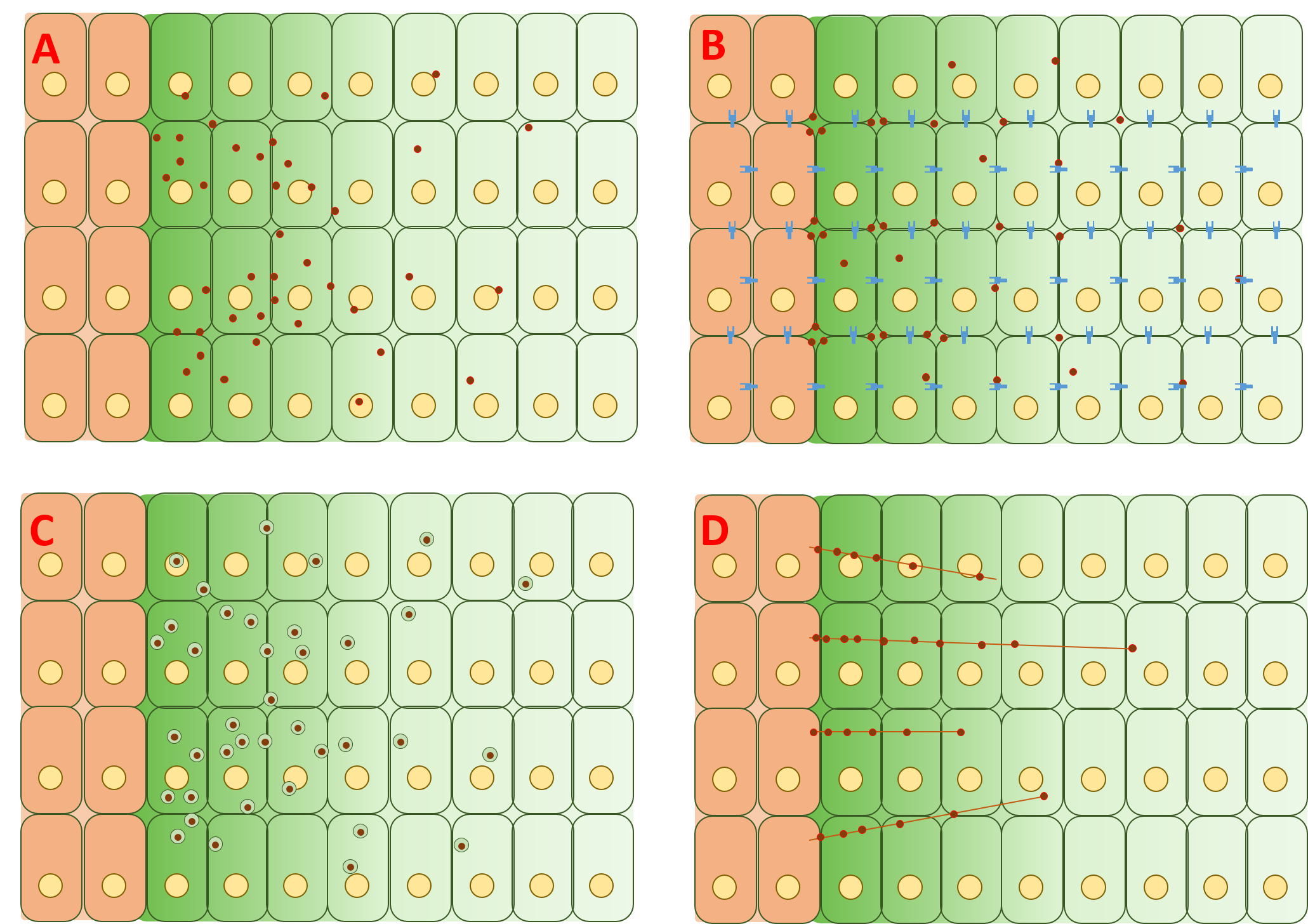 Overview of different models for Dpp morphogen gradient formation